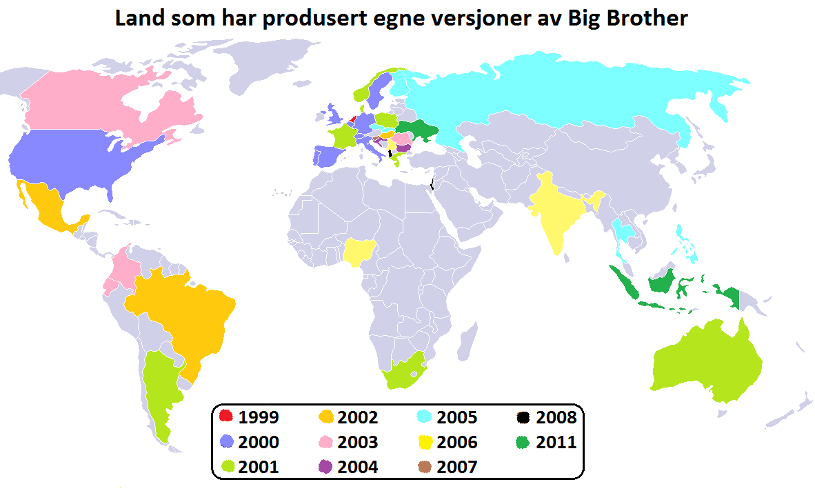 Countries that have produced Big Brother